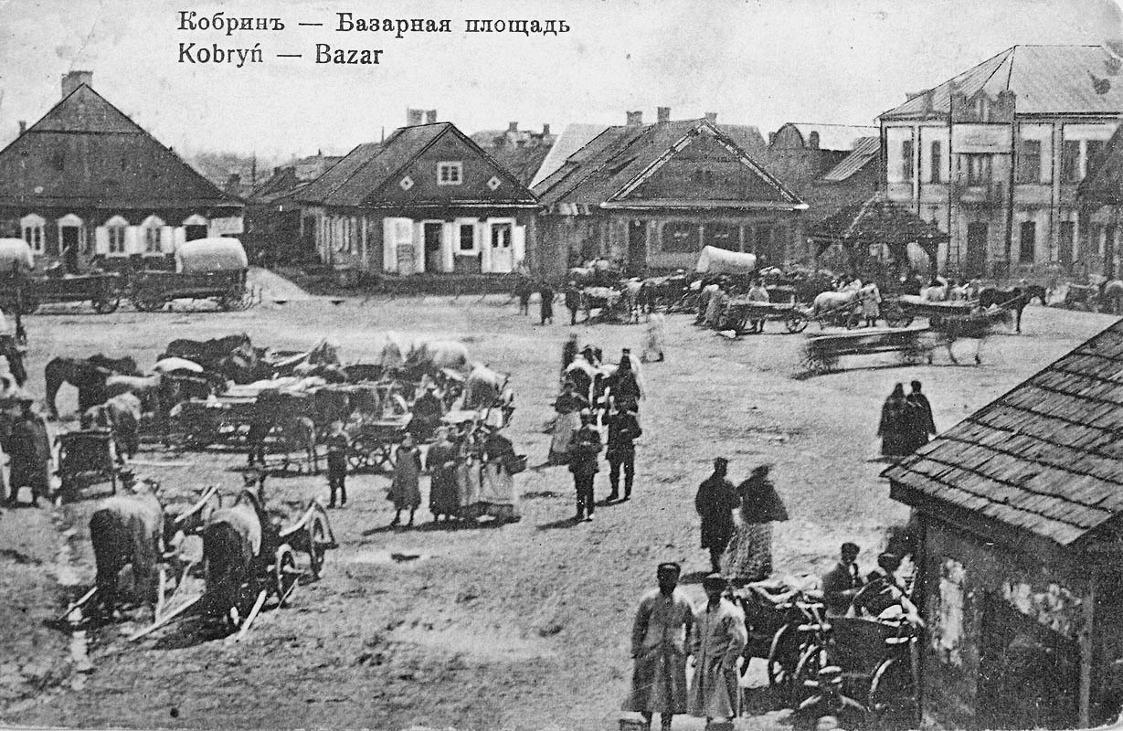 Kobryn Trade Square on Postcard 1900s